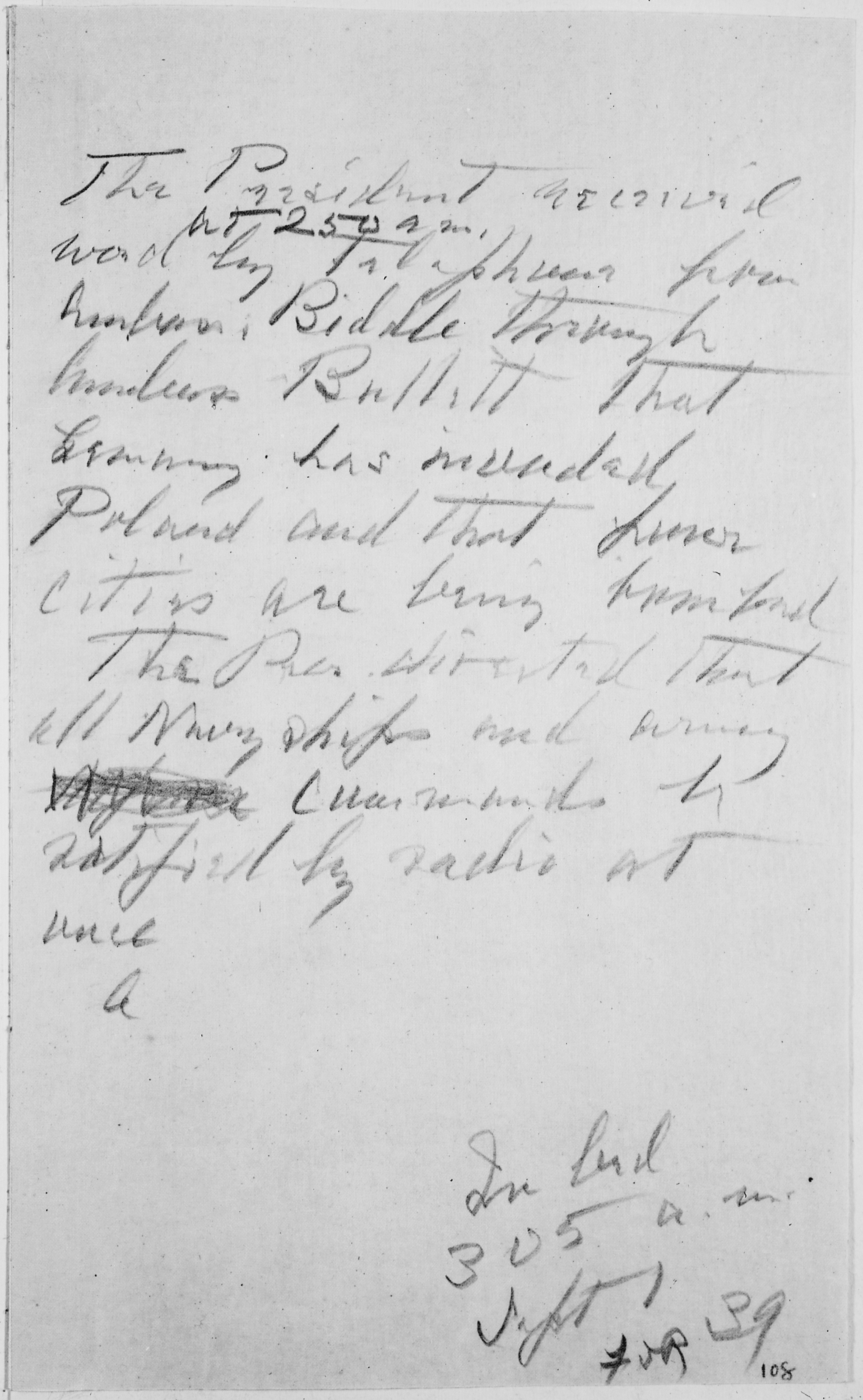 Scope and content: This item is a penciled notation written by President Franklin D. Roosevelt while in bed on September 1, 1939 at 3:05 a.m., and records how he received news that Germany had invaded Poland and was bombing Polish cities, thus beginning World War II. The note documents that Roosevelt received word of the invasion from Ambassador Anthony Biddle, through Ambassador William Bullitt. The note also documents the President's order that all Navy ships and Army commands be notified by radio of the German invasion.